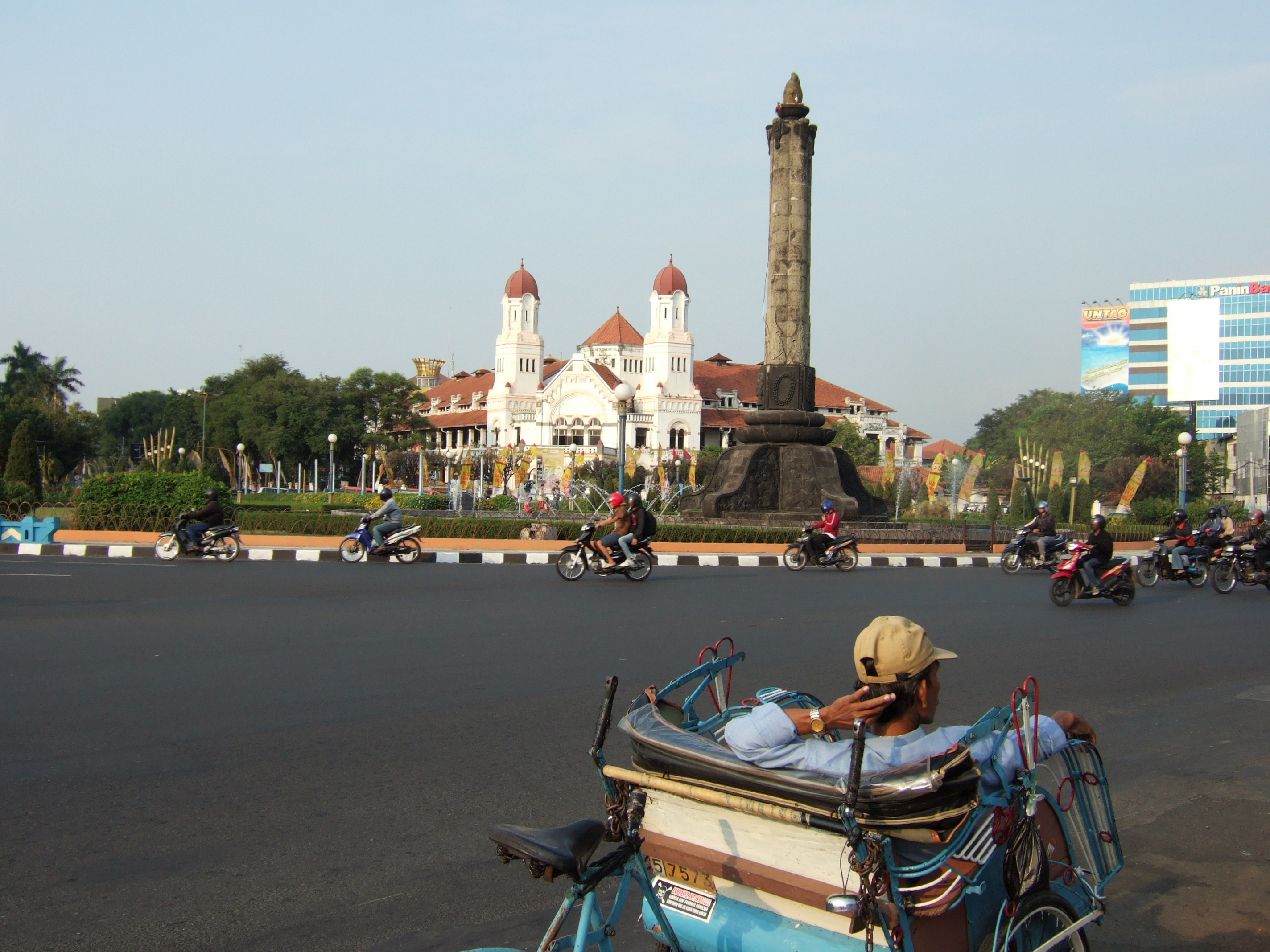 Tugu Muda (Youth Monument) in Semarang, Central Java and cycle rickshaw (becak)